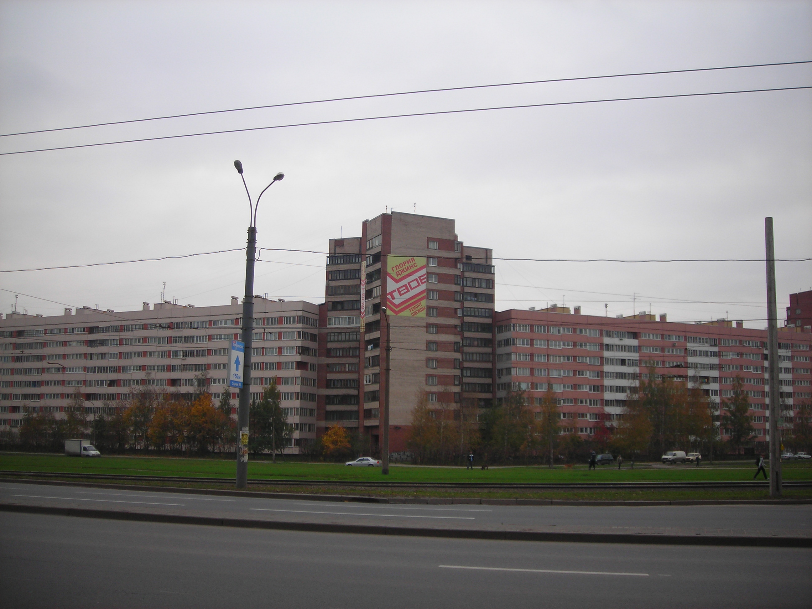 new buildings on Prospect Stachek, Spb